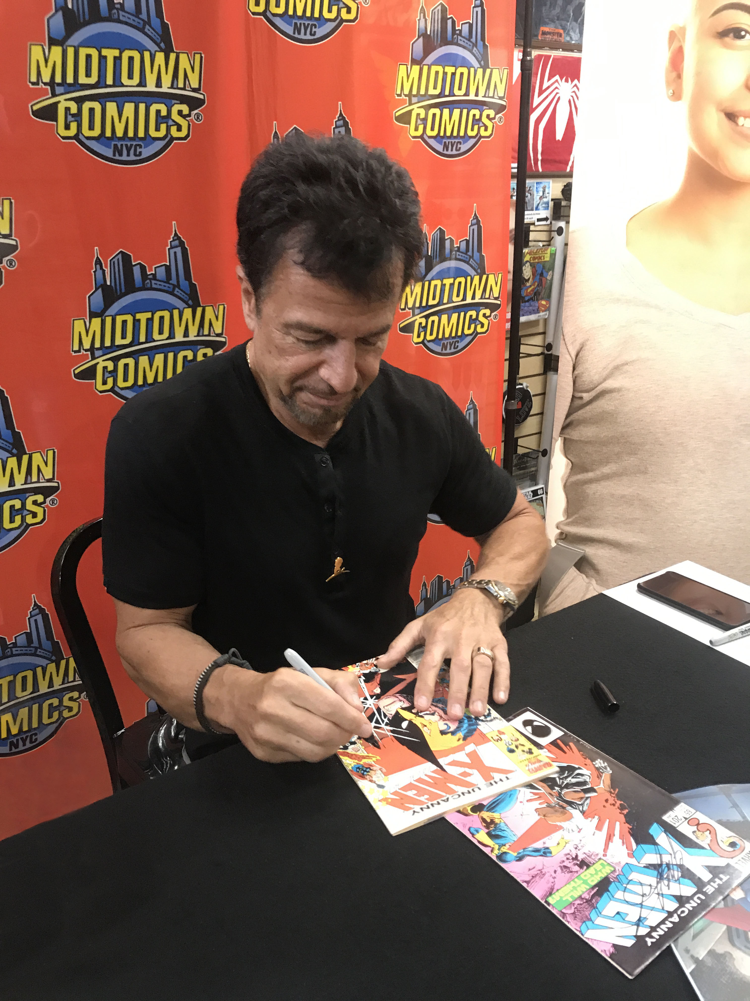 Comics artist John Romita Jr. at a June 20, 2019 book signing for Superman: Year One #1 (August 2019) at Midtown Comics Downtown in Lower Manhattan. In the photo, Romita is signing a copy of The Uncanny X-Men #211, part of the 1986 “Mutant Massacre” storyline. In the background at right is a poster for St. Jude’s Children’s Research Hospital, to which $2.00 of each signed copy of Superman: Year One was donated, as part of the store’s arrangement with Romita. This photo was created by Luigi Novi. It is not in the public domain, and use of this file outside of the licensing terms is a copyright violation.